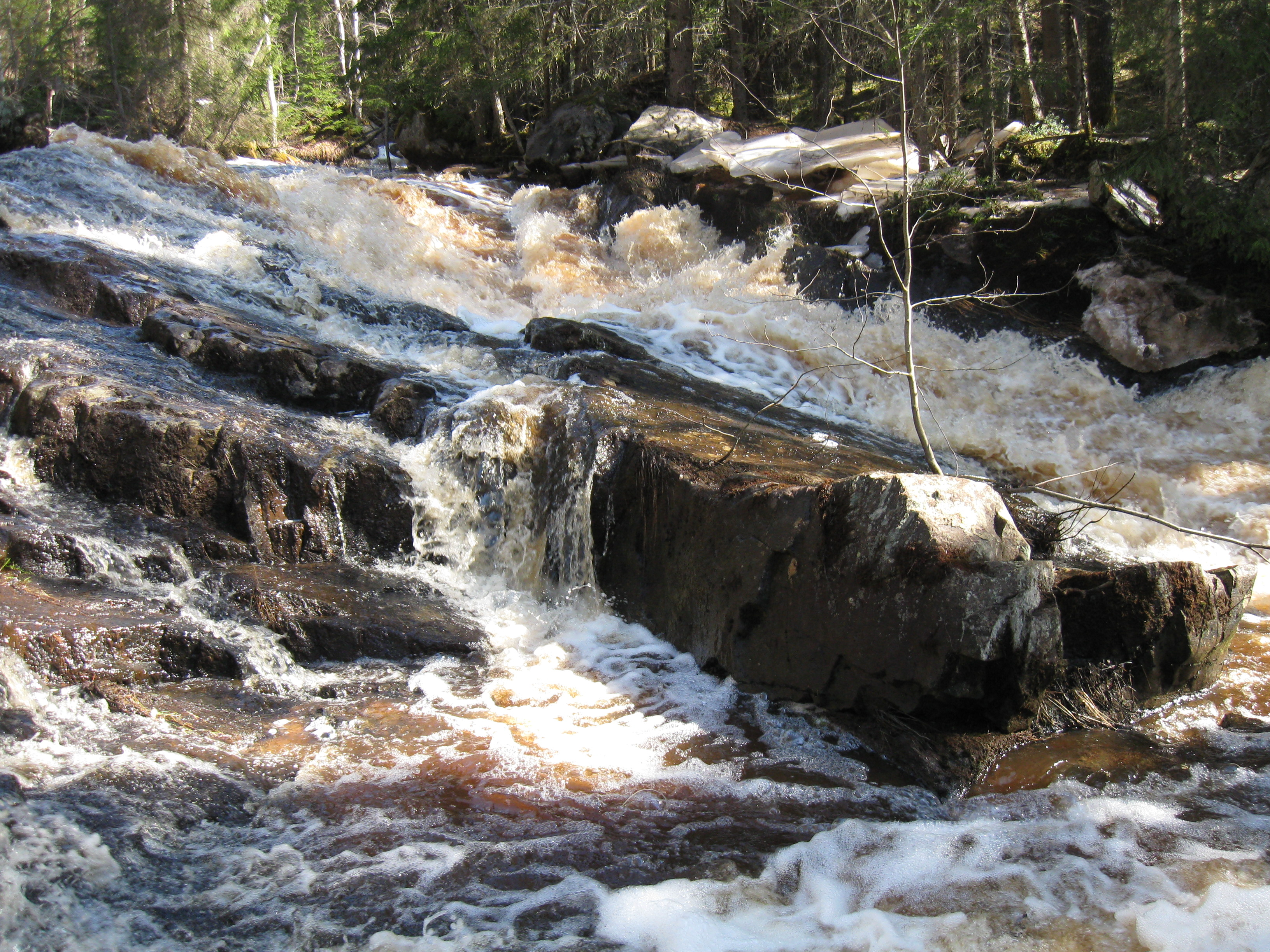 The Isterinkoski rapids in Poikajoki in Muhos, Finland.